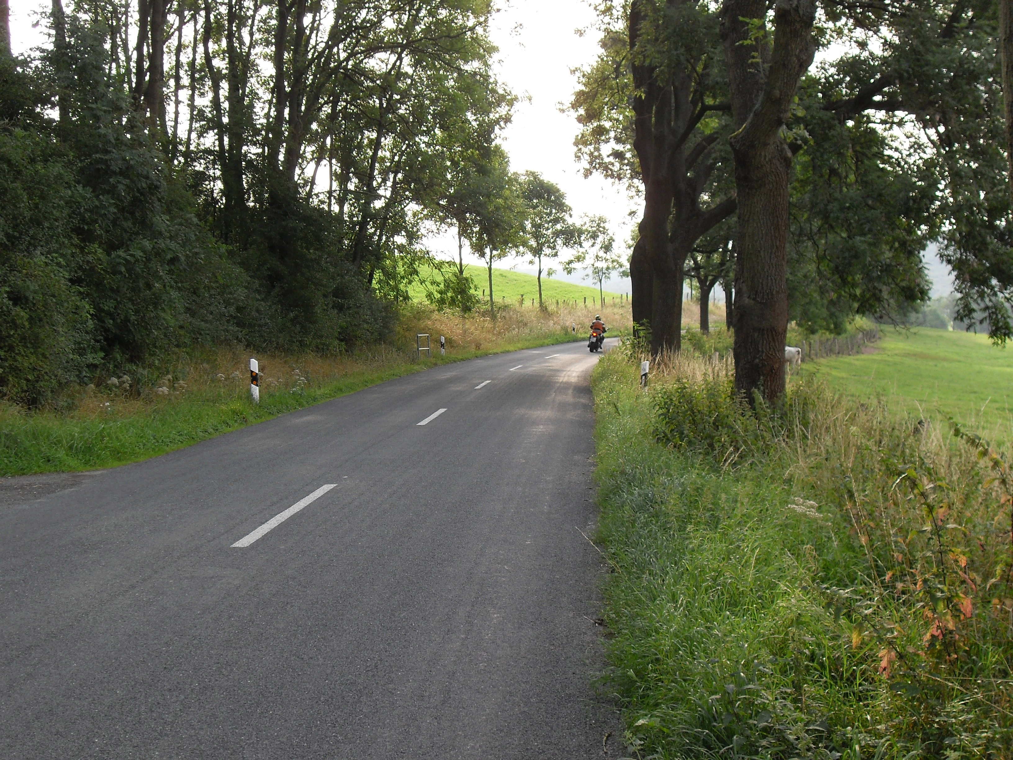 motorbike rider in Reitlingstal in the Elm range, Lower Saxony, Germany